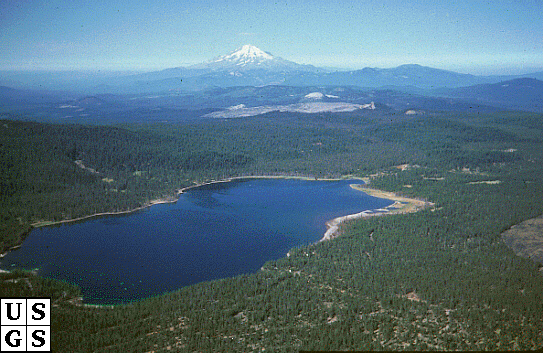 Aerial view of Medicine Lake from the northeast.